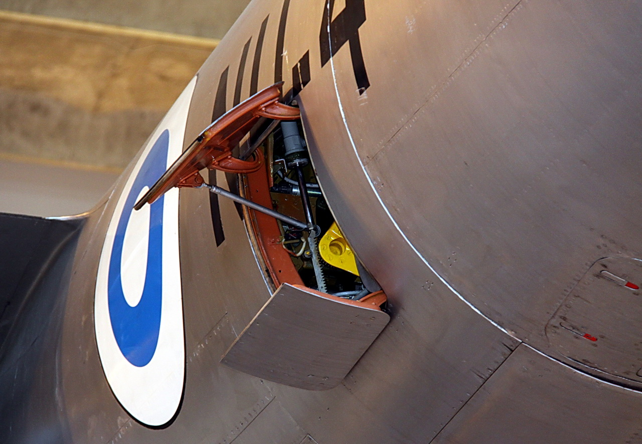 Iljušin IL-28R (NH-4) in Aviation Museum of Central Finland.